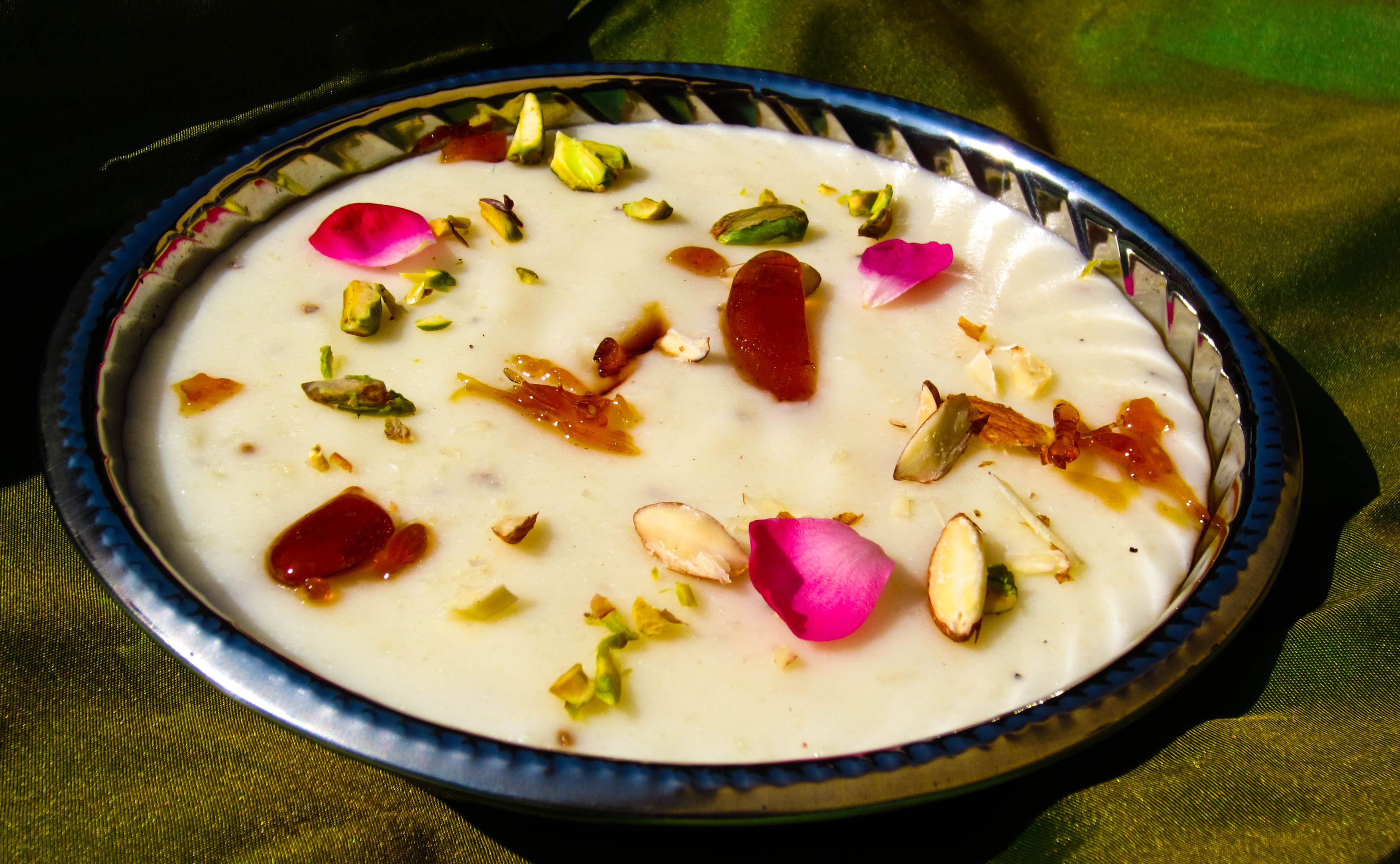 Phirni is a rice based delicious dessert which is very easy to make. Visit my blog for recipe.